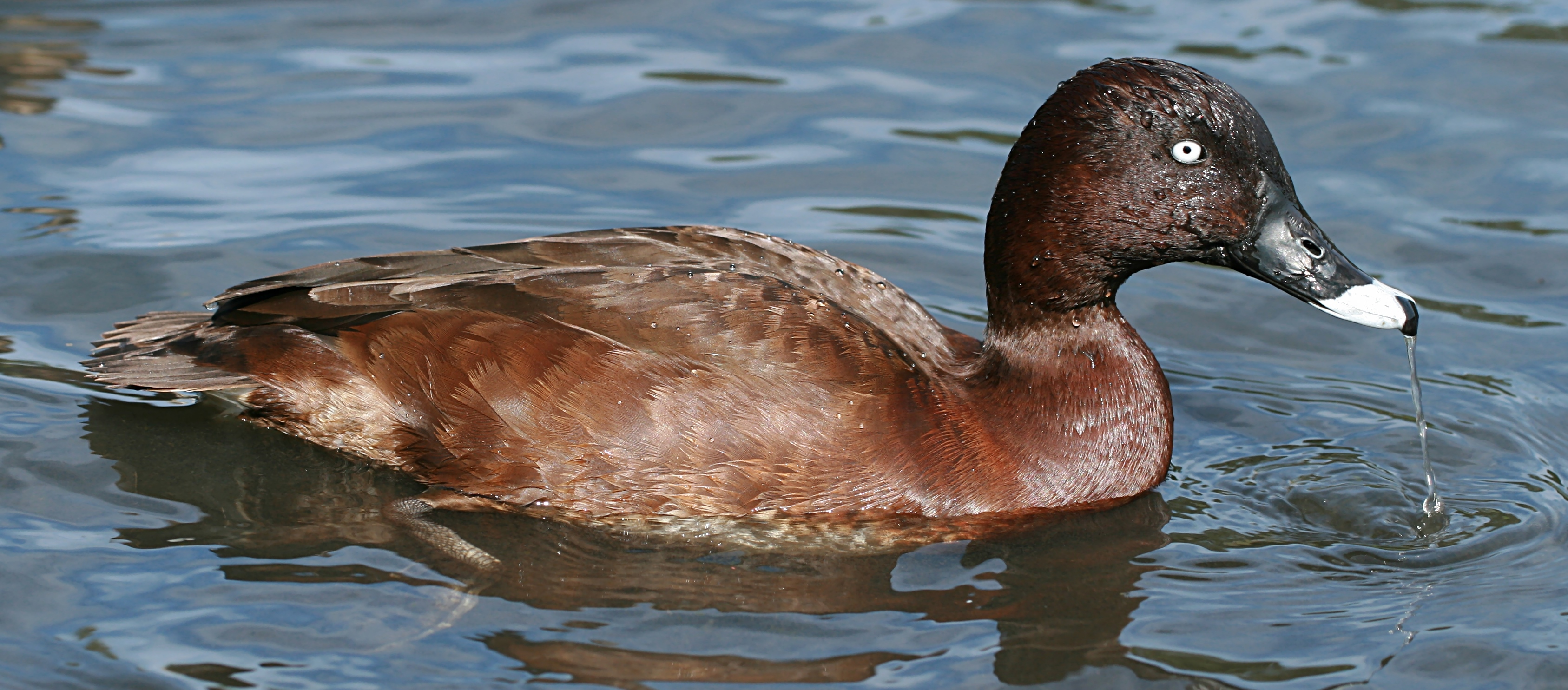 A male Hardhead duck, Aythya australis, in Victoria Park, Sydney.